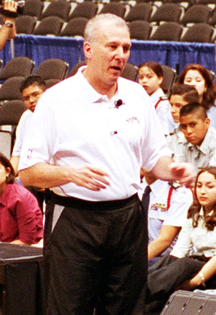 San Antonio Spurs' Head Coach Gregg Popovich talks with about 300 Junior ROTC cadets from local high schools at the Alamo Dome, in San Antonio, Texas, on March 3, 2000. This file has been extracted from another file: Gregg Popovich Junior ROTC.jpg